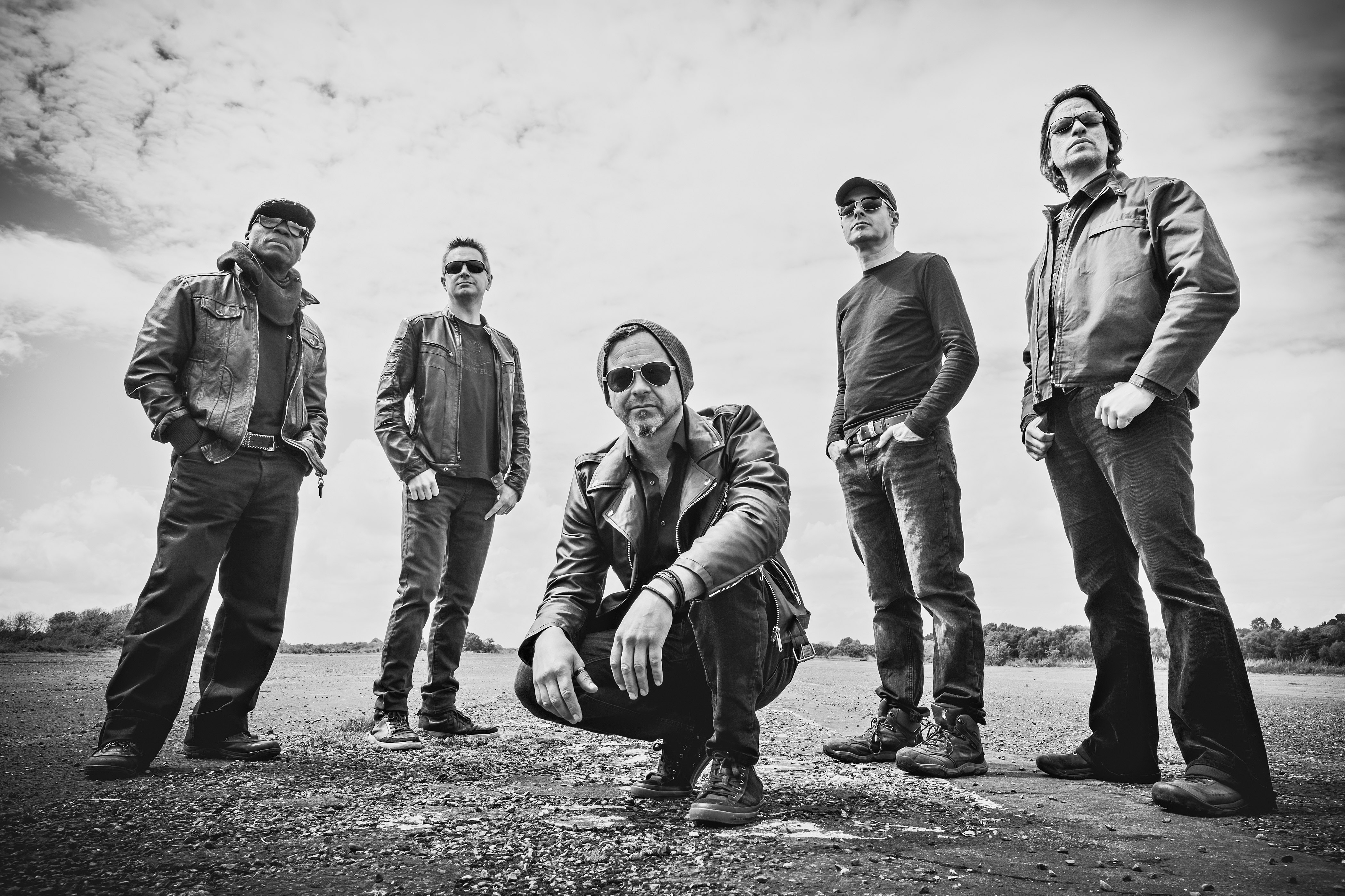 British rock band Threshold taken by Robert Burress